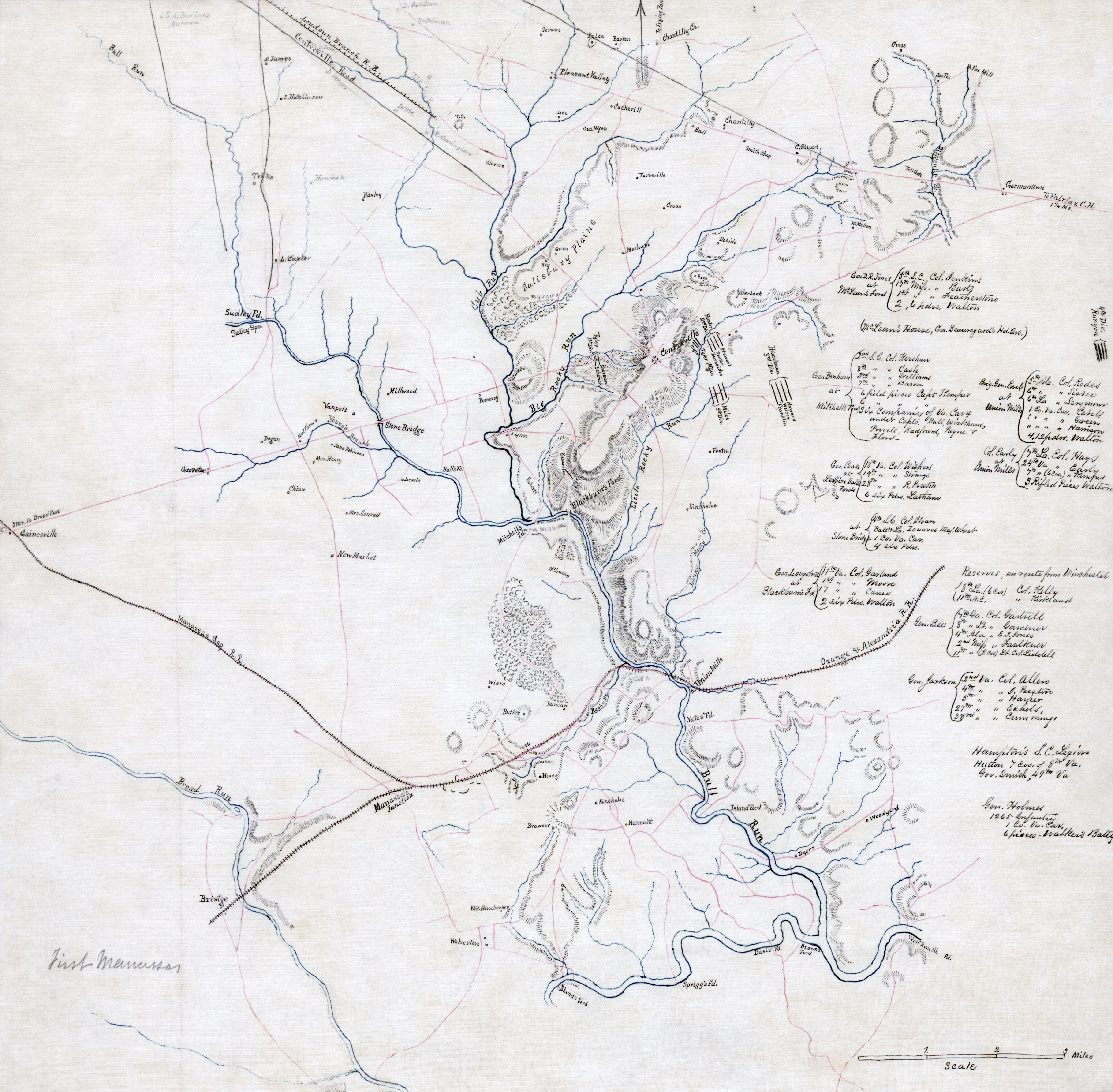 Confederate map from the American Civil War of First Manassas (First Battle of Bull Run). Includes some troop positions, and lists of Confederate regiments engaged in the battle of Manassas, with the names of their commanders. Relief shown by hachures. Digitized from Pen-and-ink and pencil manuscript on tracing linen, mounted on paper (original 41cm x 41cm). Scale [1:63,360]. Restored version of File:First Manassas map.jpg. Dirt, stains, and water damage removed. Various local brightness adjustments. Levels adjusted and colors balanced.